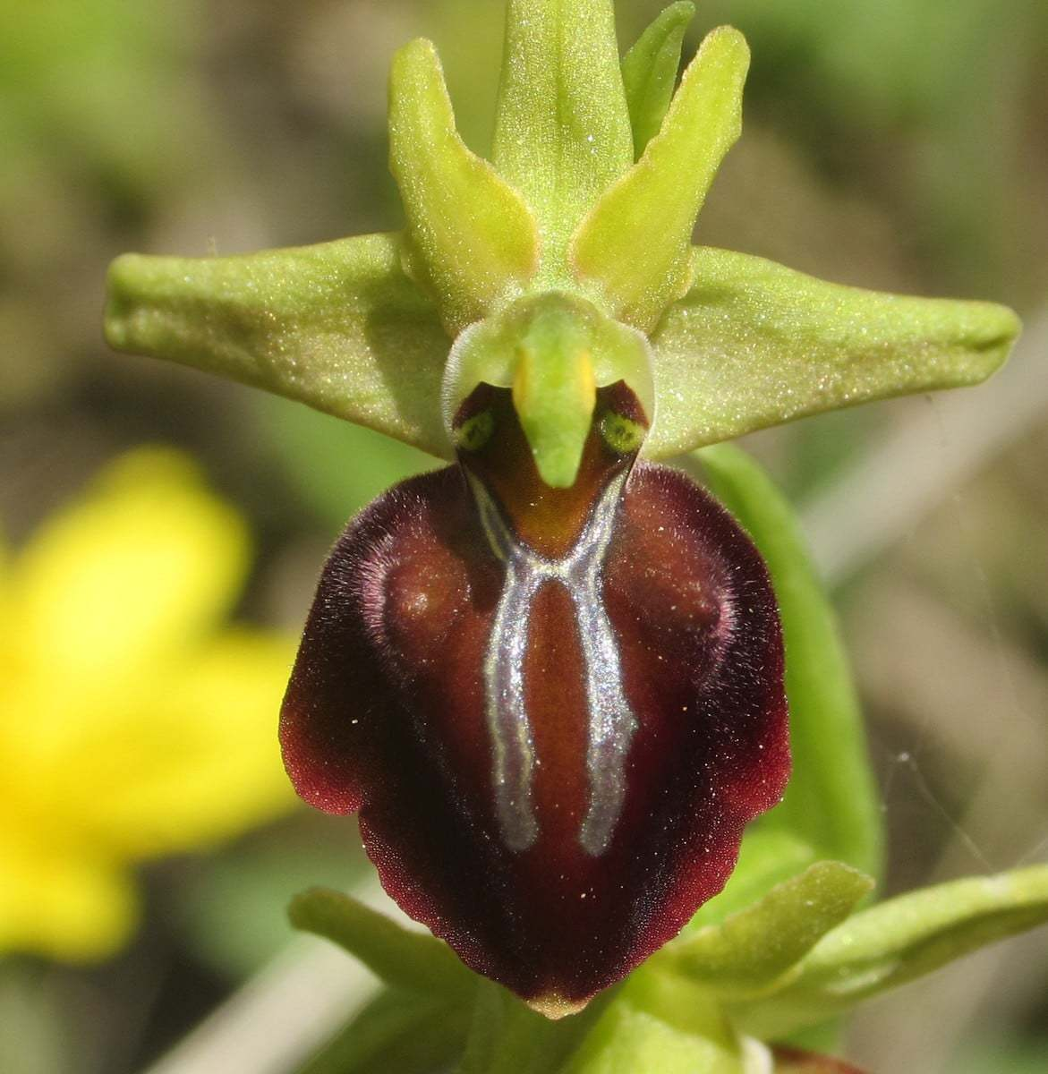 Ophrys sphegodes subsp. catalcana petals